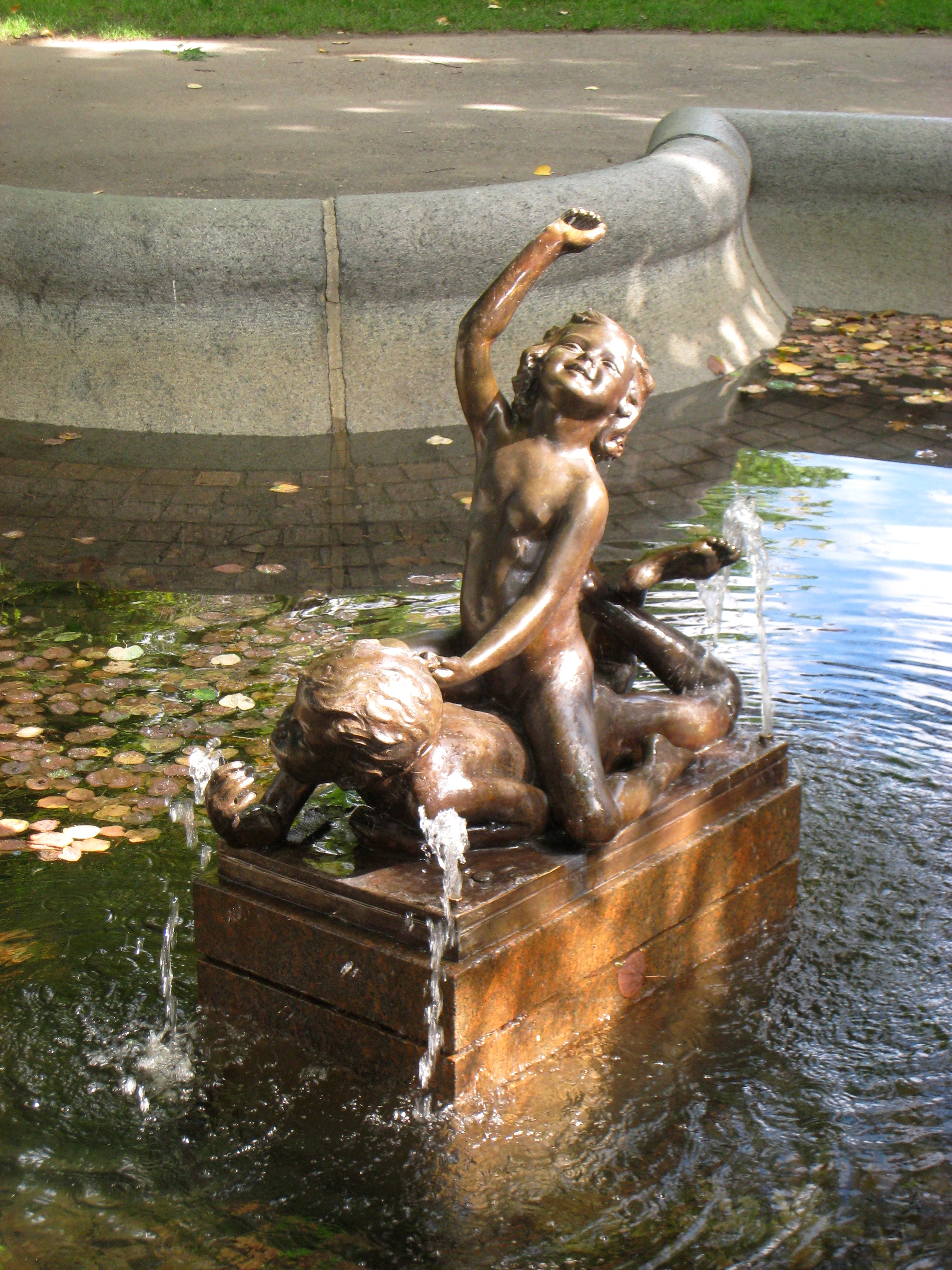 Fountain sculpture of Triton Babies in Boston Public Garden, Boston, Massachusetts, USA. Sculpture by Anna Coleman (Watts) Ladd (1878-1939). Date of creation unknown; it moved to this location in 1924.